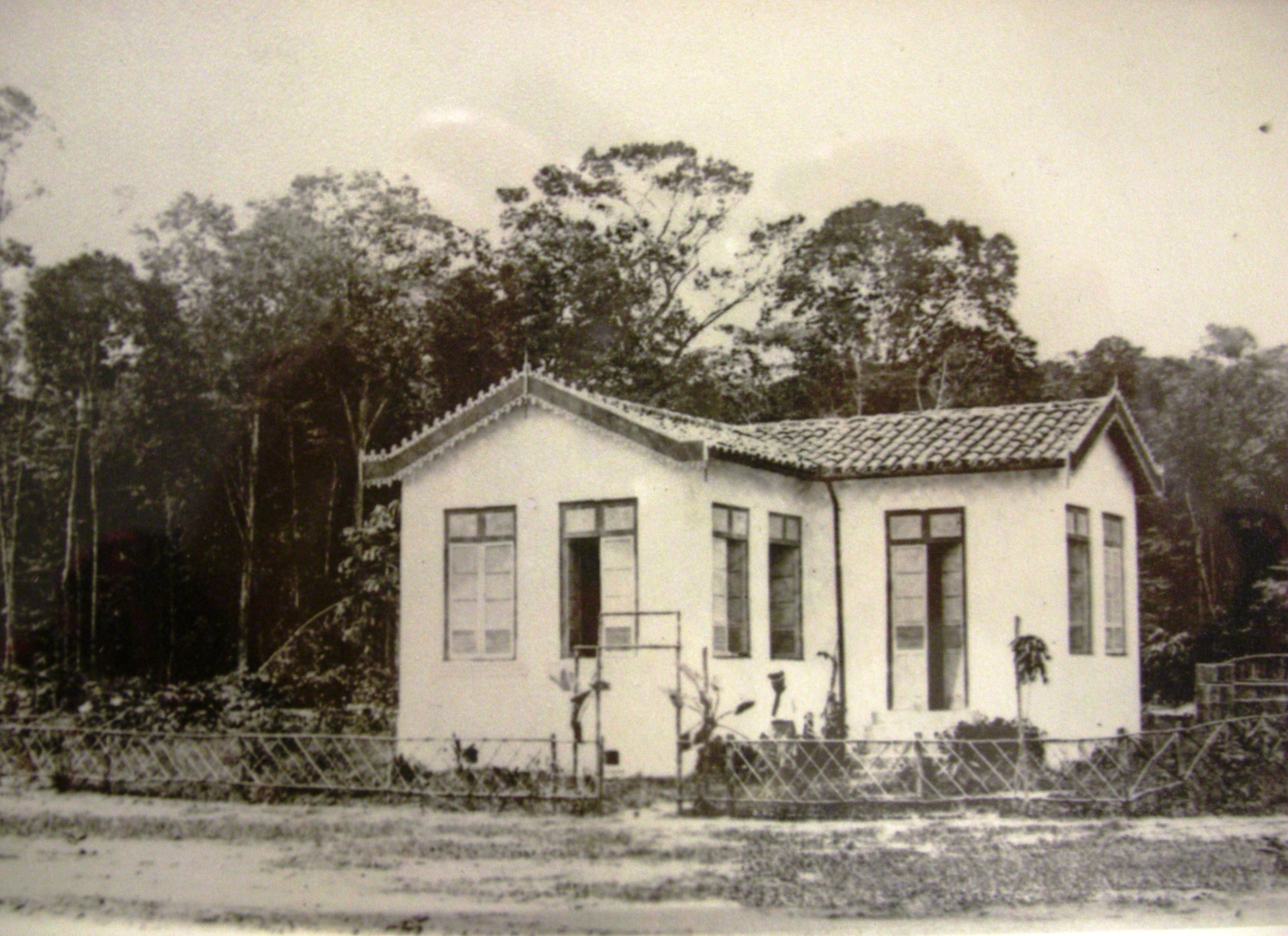 Mission laboratory in Domingos Freire Hospital, Para, Brazil